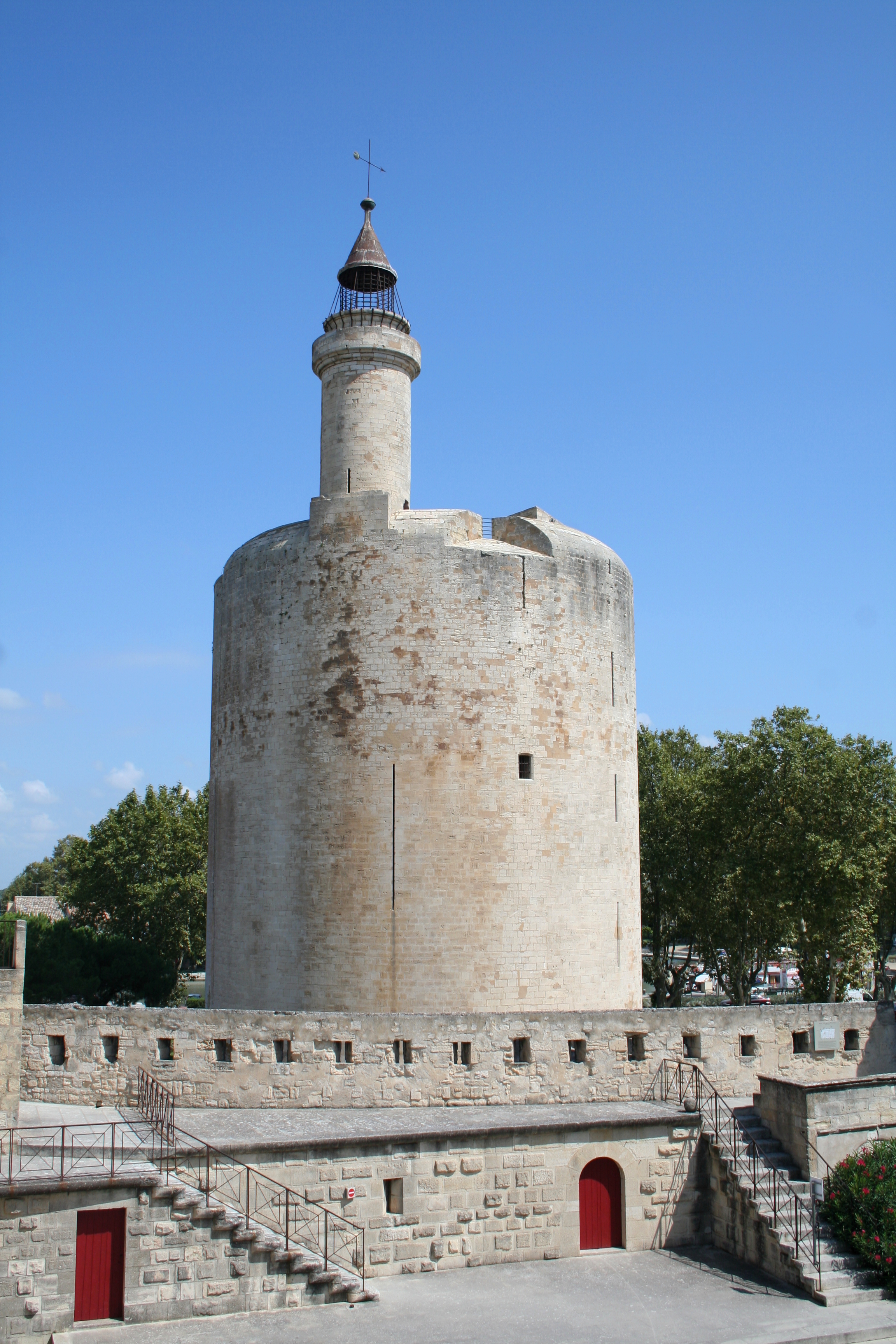 Tour de Constance in Aigues Mortes (France - Département du Gard, Western Camargue)